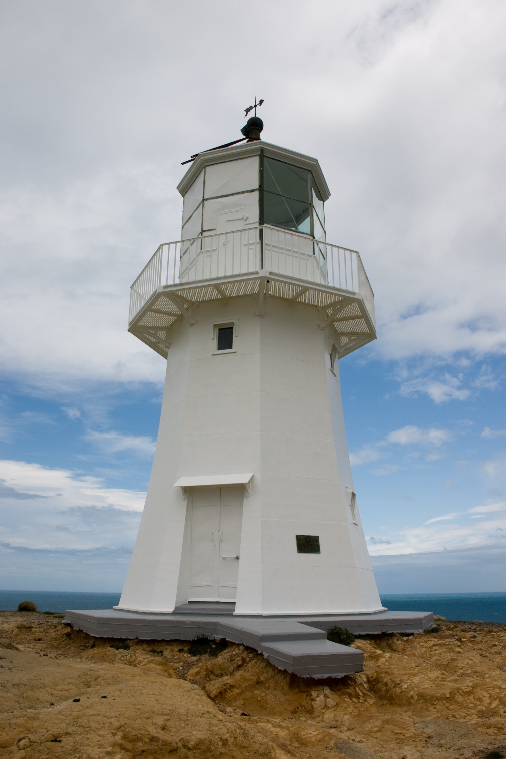 Upper lighthouse at Pencarrow Head, near the entrance to Port Nicholson, Wellington, New Zealand.